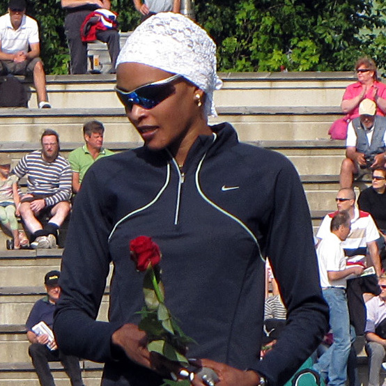 Lappeenranta Games 2009 (EAA Classic Meeting). Women's 400m hurdles. On the podium: Emma Millard, Muna Jabir (winner), Ilona Ranta.